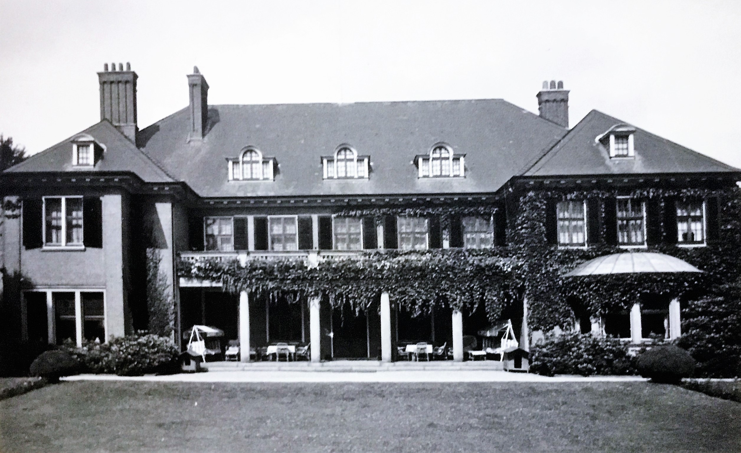 Villa Fritz Thyssen Muelheim Terrace Foto KuMuMue-Kulturmuseum Muelheim